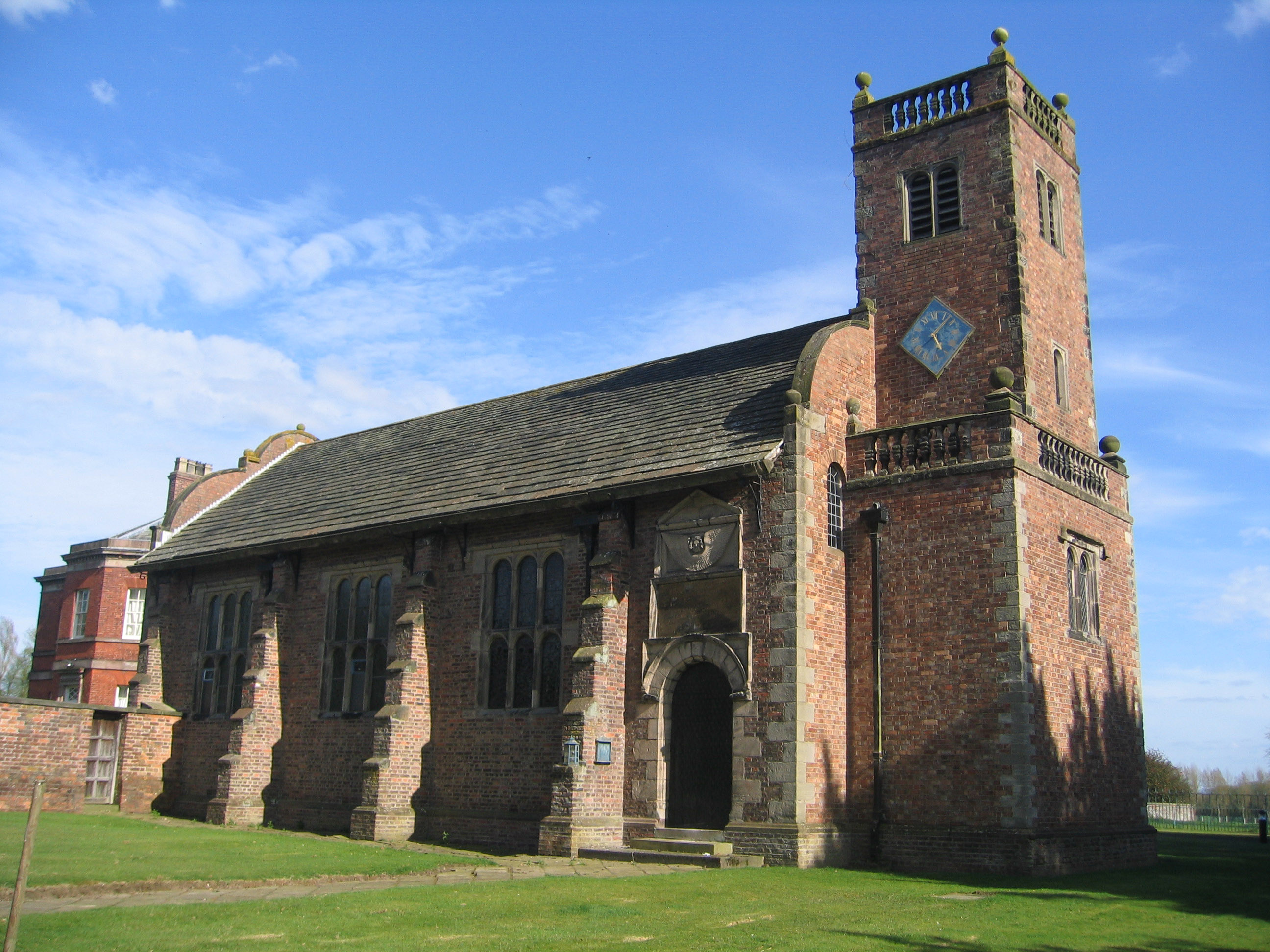 St Peter's Chapel, Tabley, Cheshire, seen from the northwest